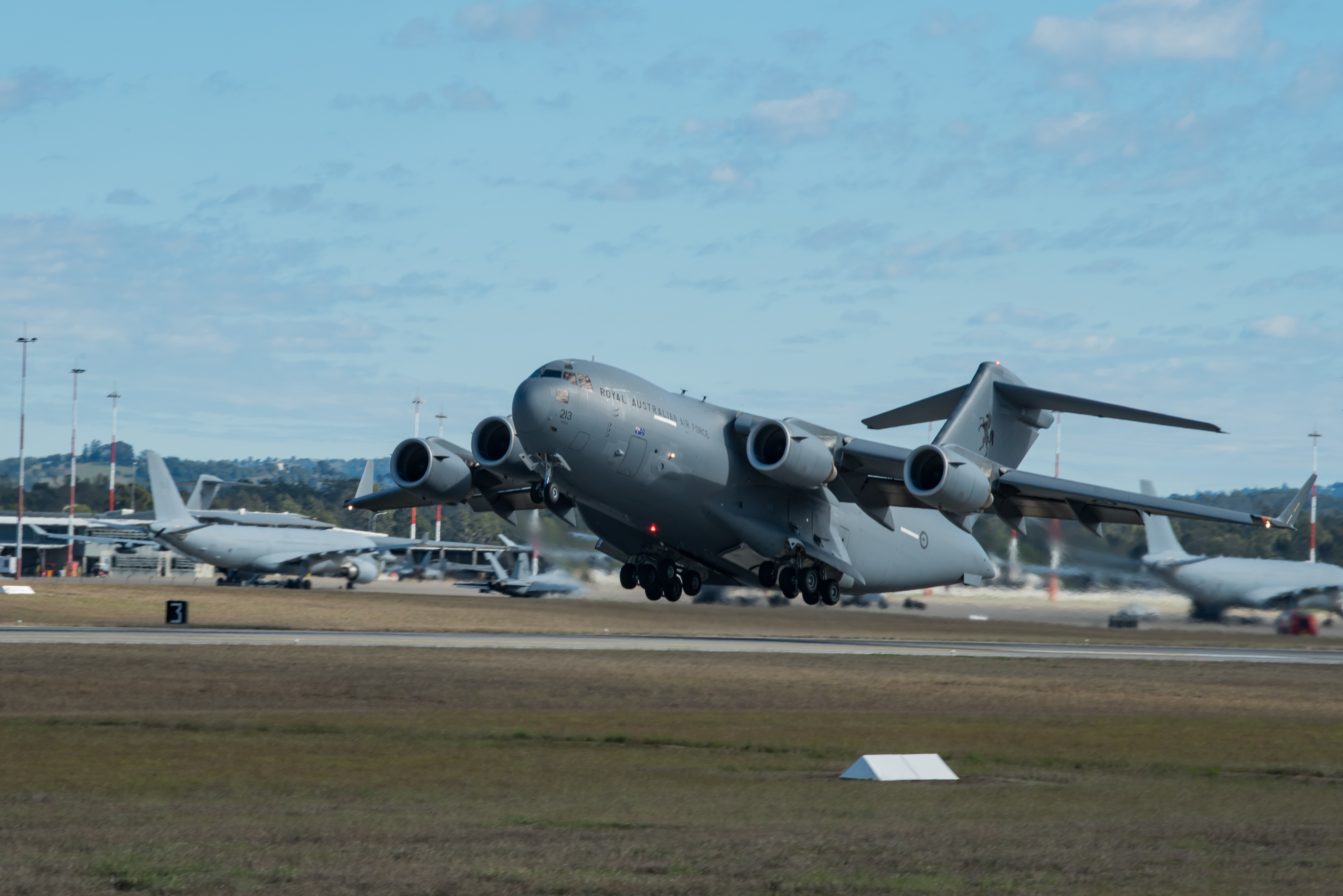 A Royal Australian Air Force C-17A Globemaster III takes off from the RAAF Base Amberley flightline July 10 during Talisman Sabre 19.